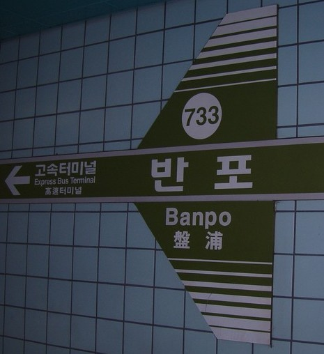 Banpo Station